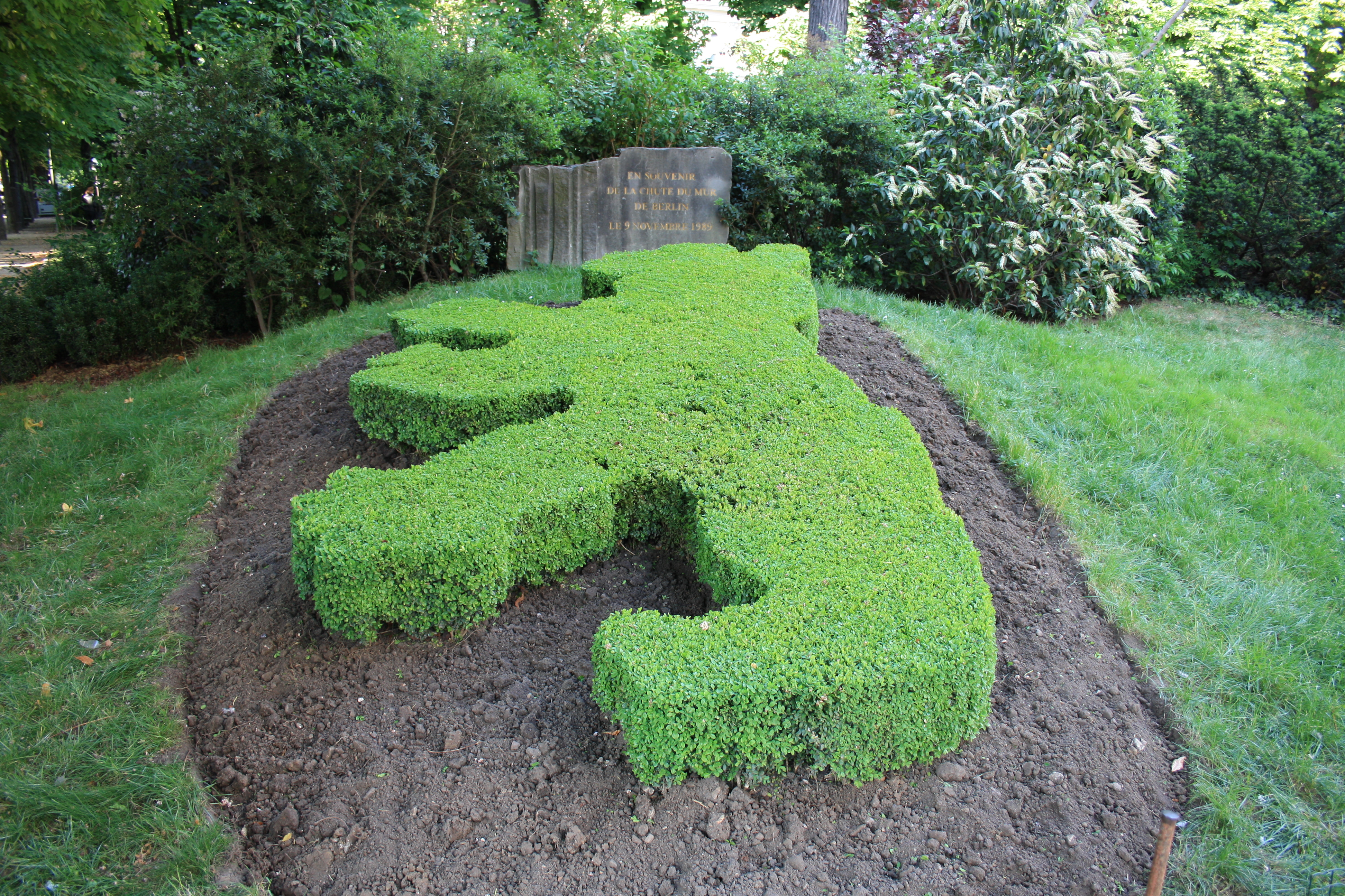 Square de Berlin. Monument commemorating the fall of the Berlin Wall on November, the 9th 1989 in Paris, France